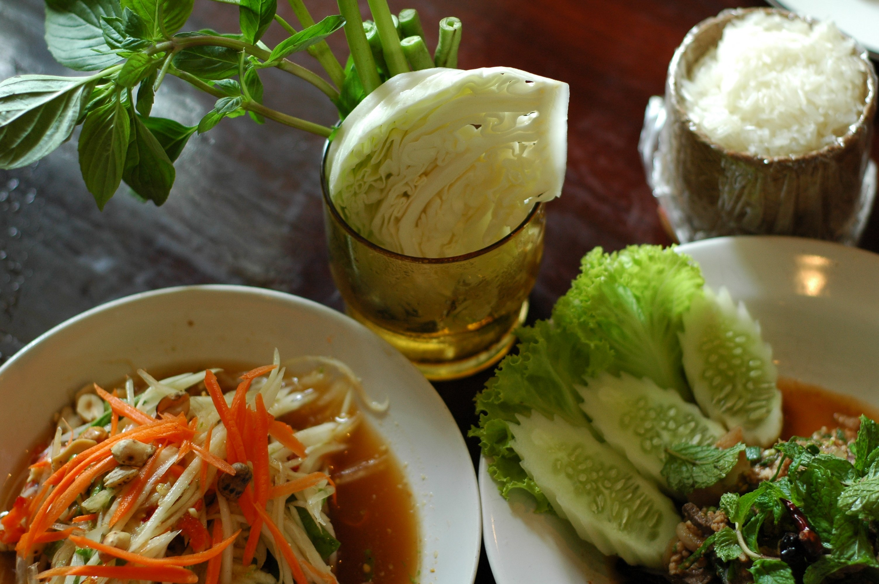 Som tam Thai (papaya salad with dried shrimp), larb muu (minced pork salad) and khao niaw (sticky rice) at Som Tam Bangkok, Ari.